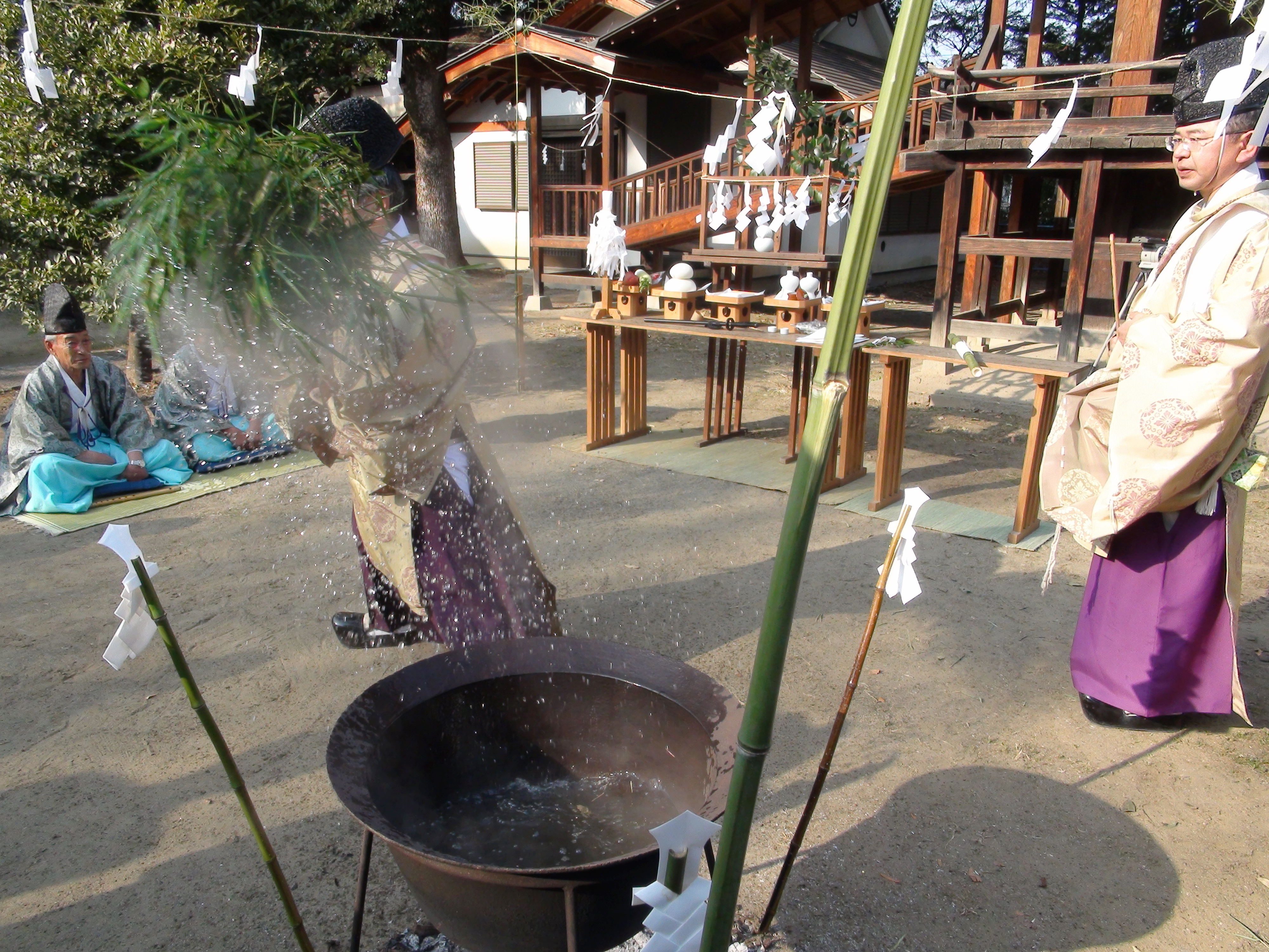 Miwa-shrine Yutateshinji（The ceremony of a traditional Shinto shrine）